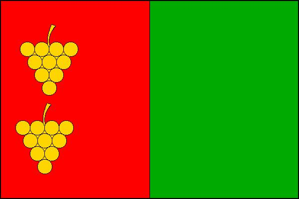 Flag of the village of Morkůvky, Czech Republic.